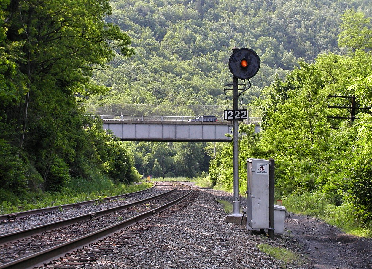 Searchlight type automatic block signal at Milepost 122.2 on the Conrail Lehigh Line in Mauch Chunk, PA displaying an "Approach" indication.